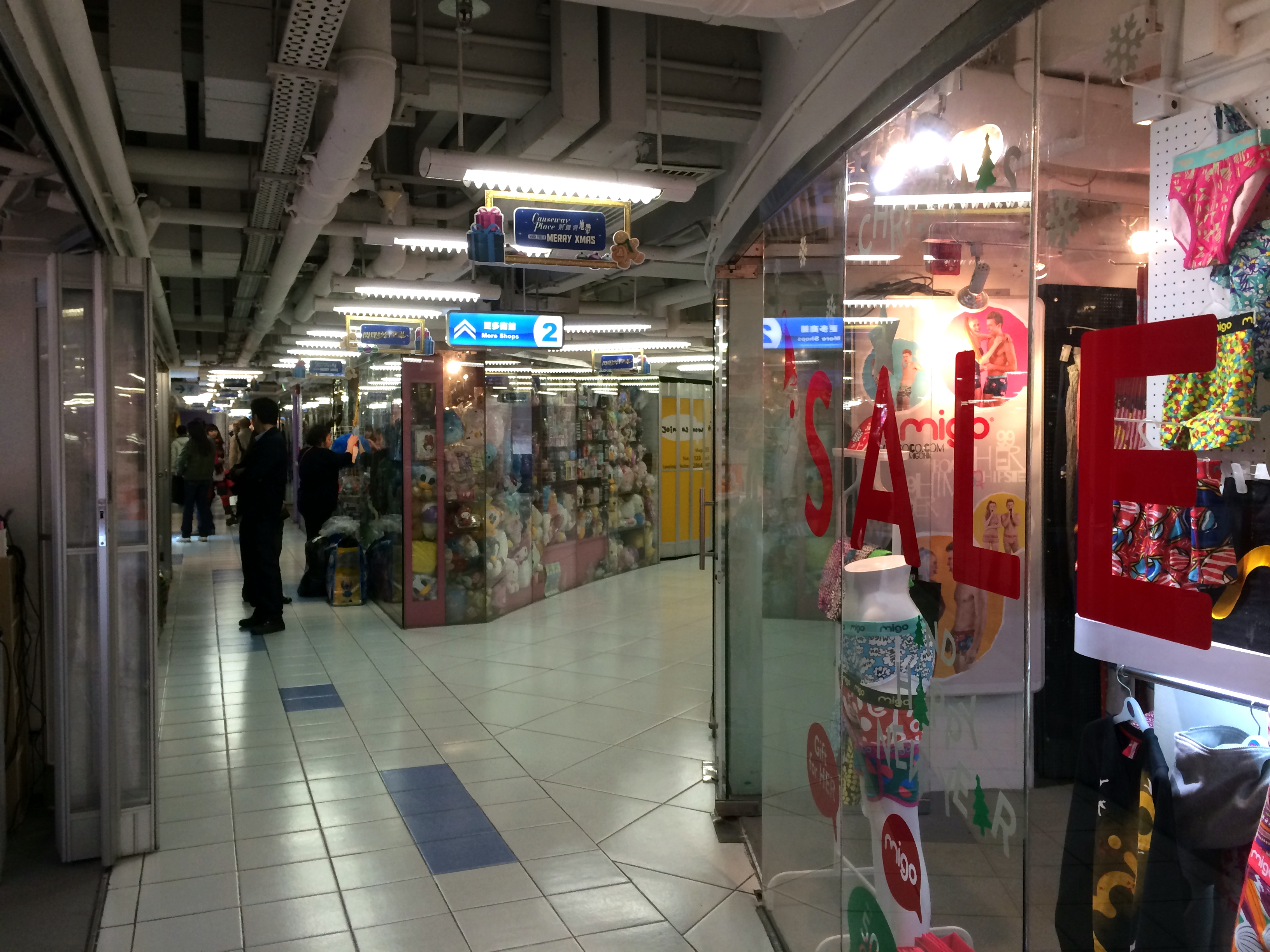 Causeway Place Level 2